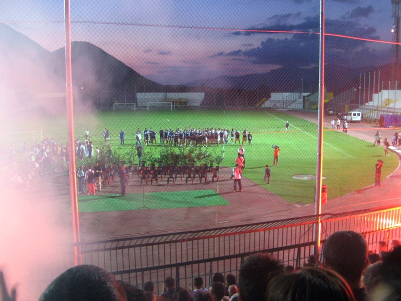 2007/08 season, S.S. Cavese 1919 introduction